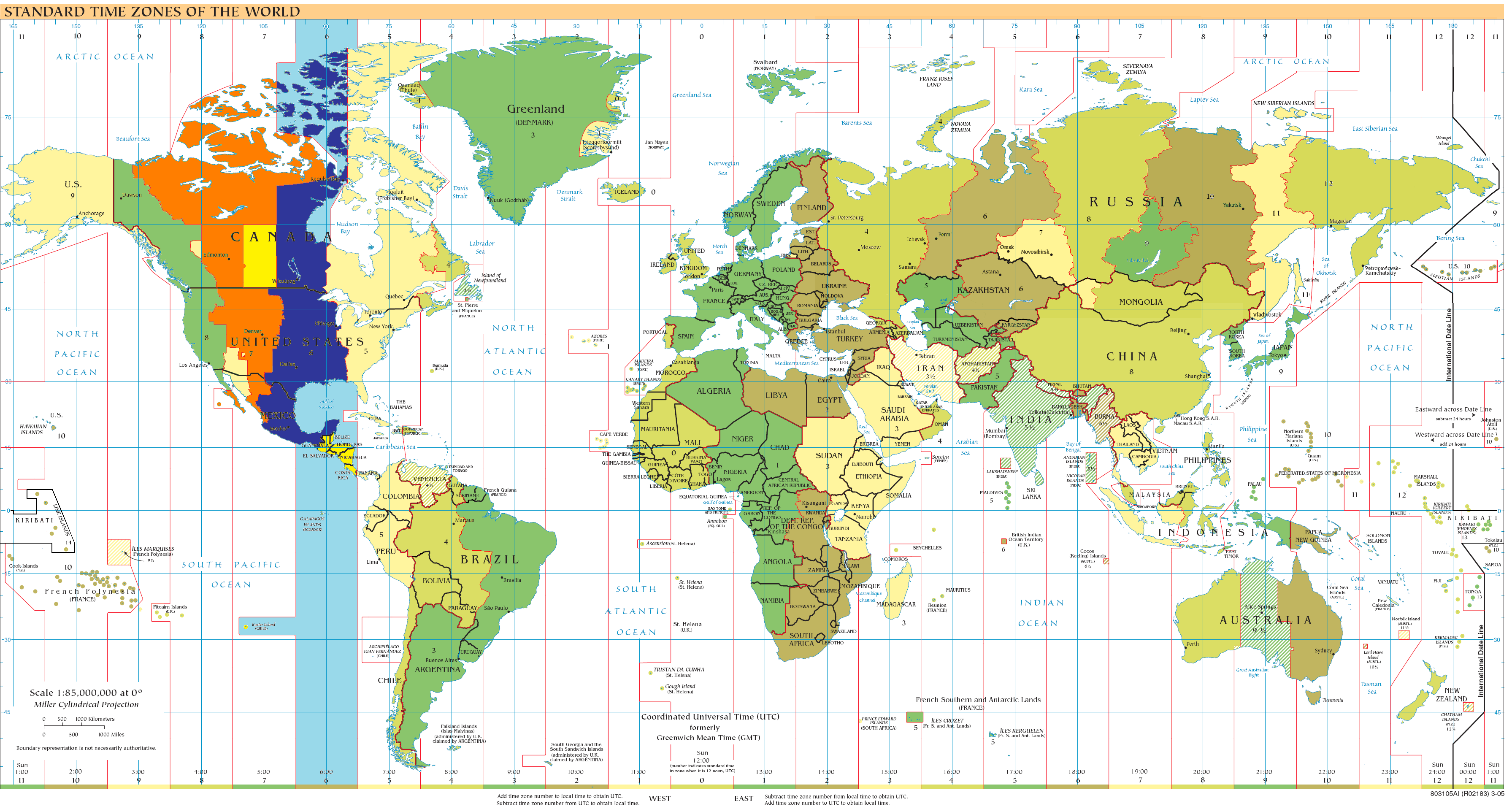 Based on Timezones2008.png Yellow - UTC-6 all year round Dark Blue - UTC-6 December Orange - UTC-6 June Light Blue - UTC-6 Sea Area